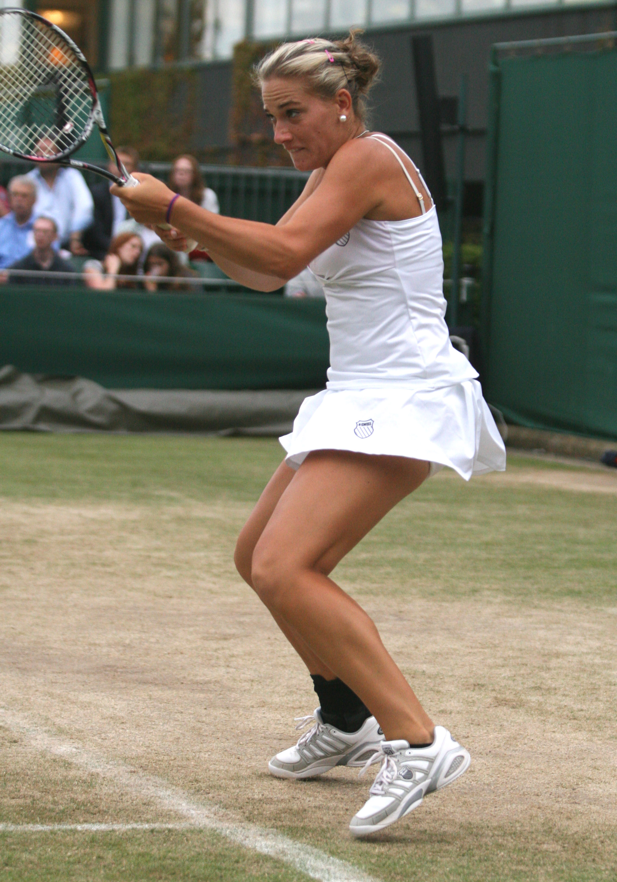 Timea Babos playing in the girls doubles second round at Wimbledon on 1st July 2010